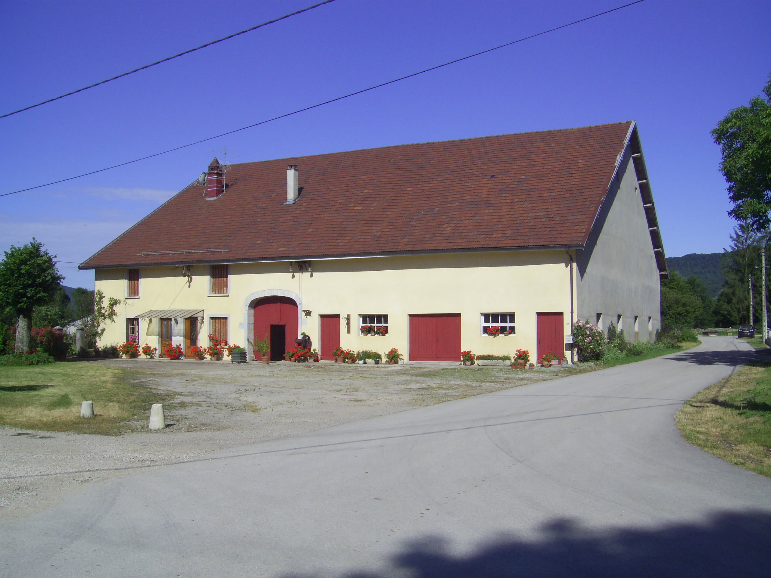 Montigny-sur-l'Ain is a village in the département Juar, France.